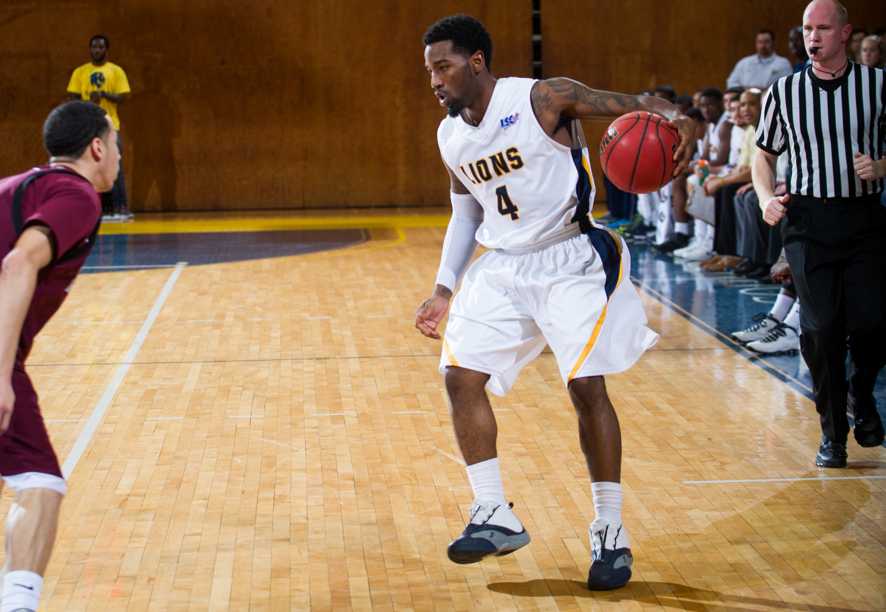 Basketball-West Texas-291 2013–14 Texas A&M–Commerce Lions men's basketball team